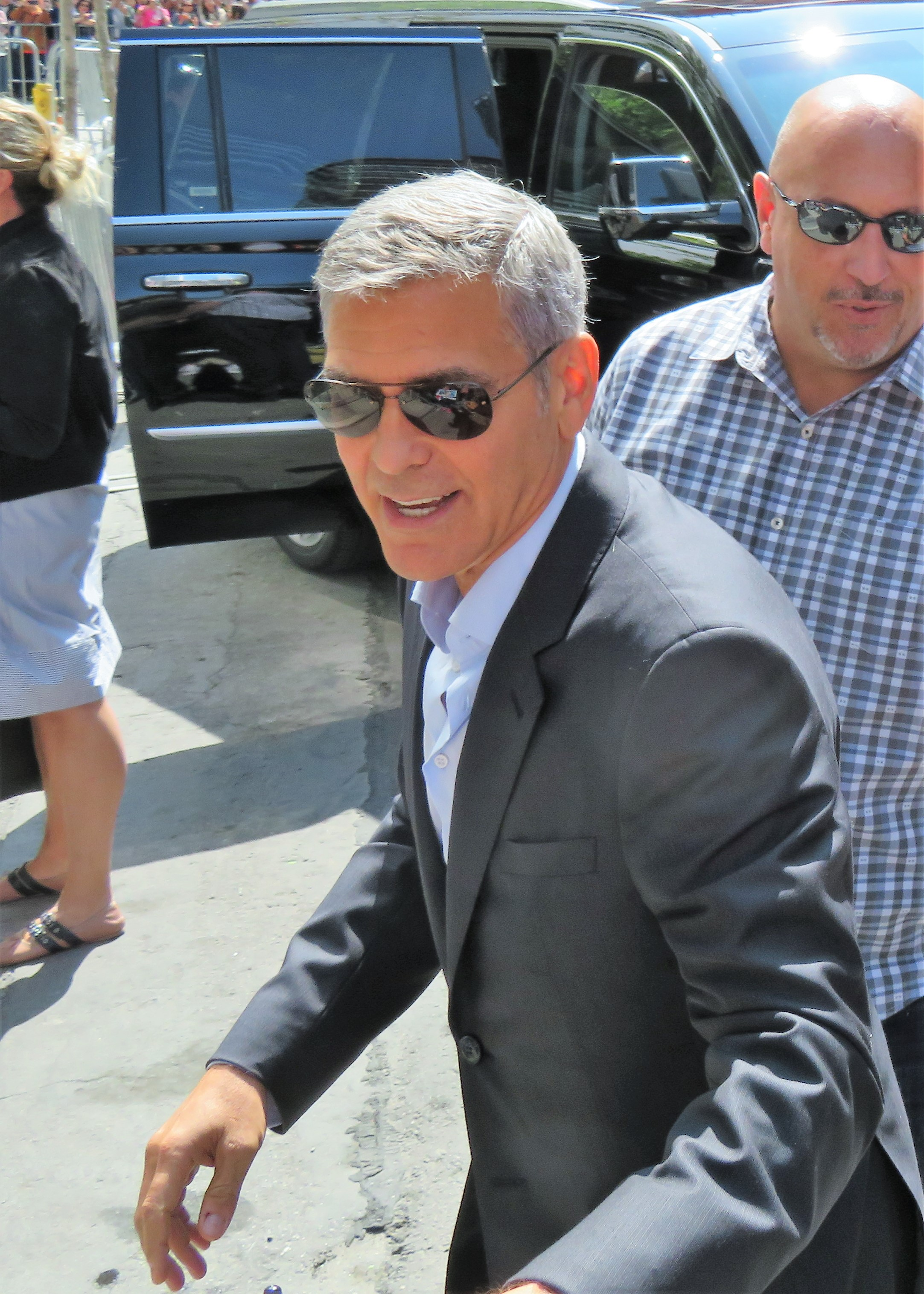 George Clooney at the press conference of Suburbicon, 2017 Toronto Film Festival